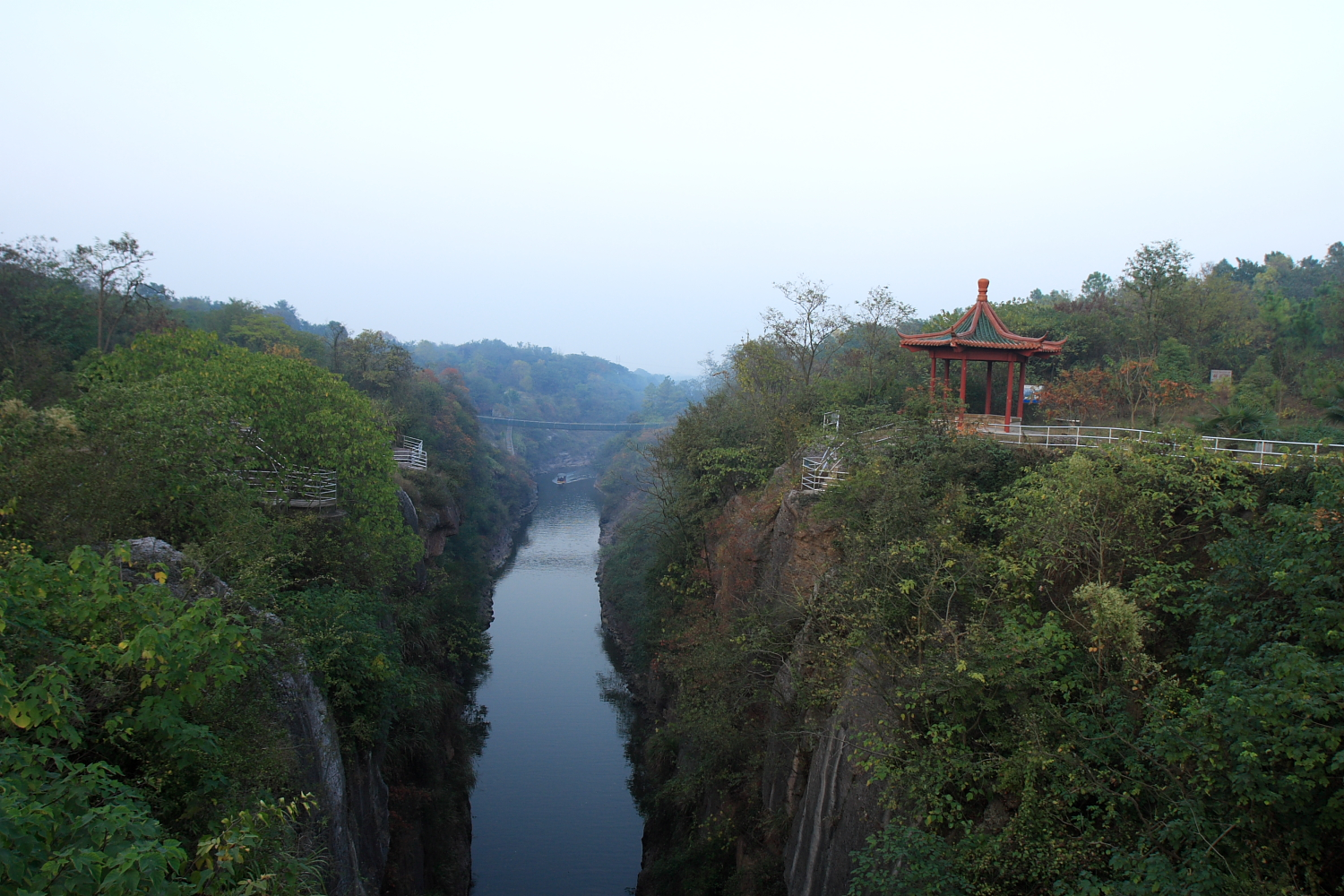 Tiansheng Bridge, Lishui, Nanjing, China